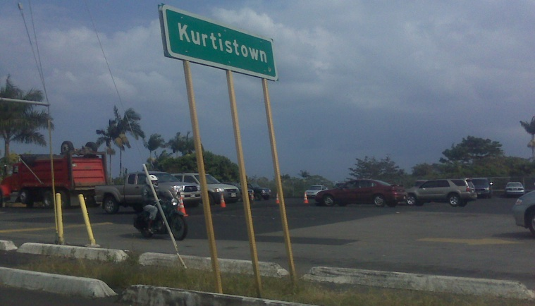 Kurtistown